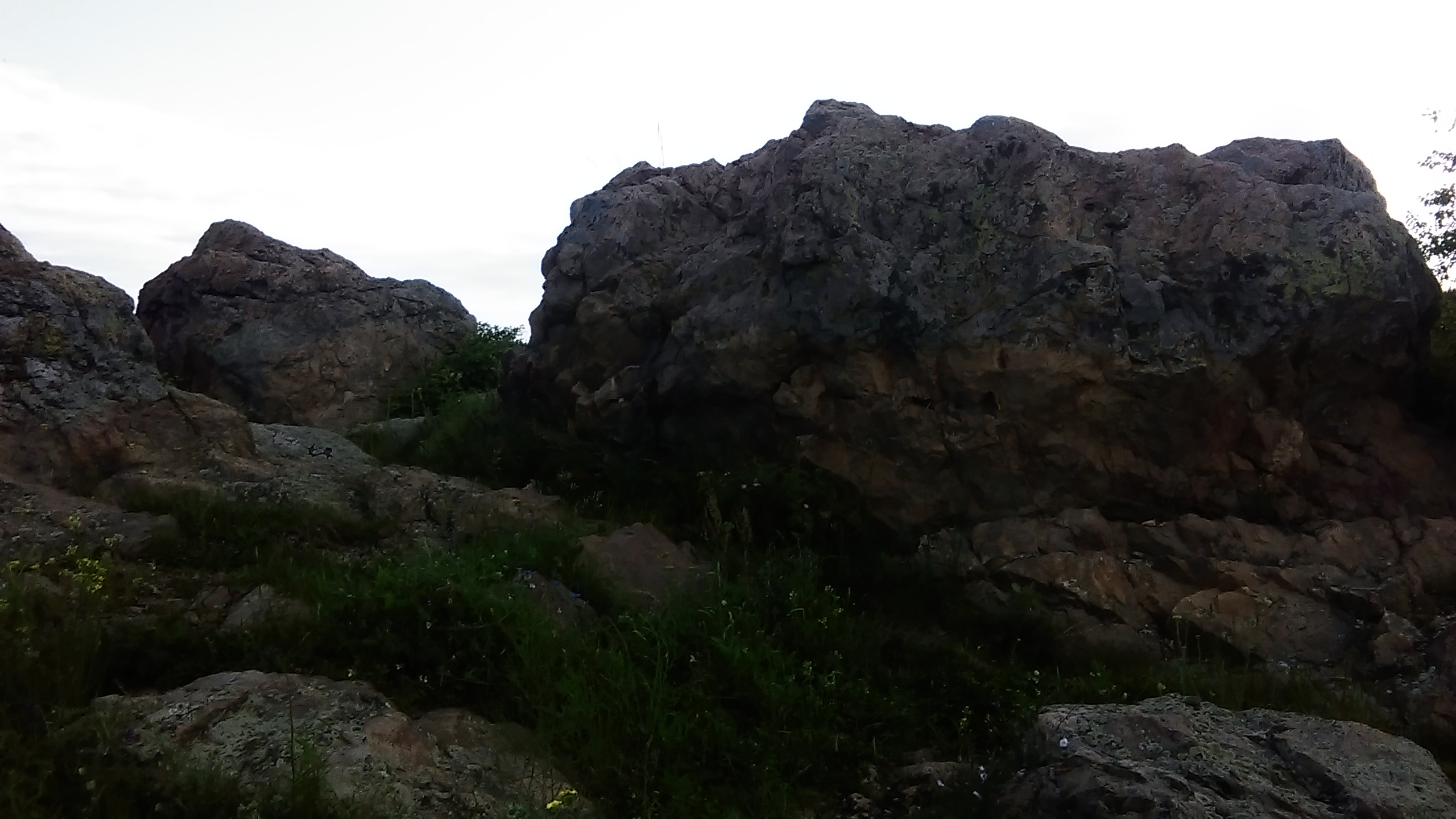 A thracian sanctuary near the ancient city Kabyle